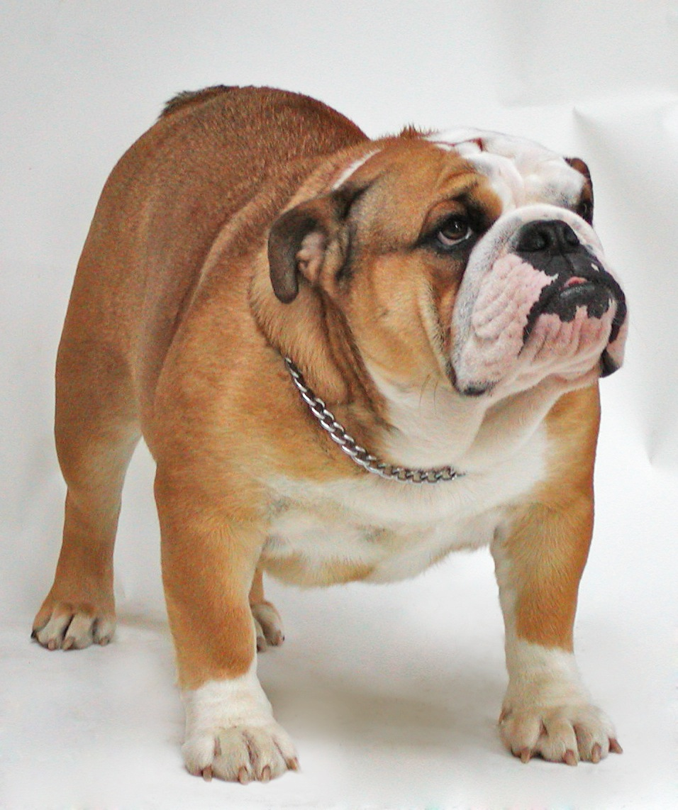 The female champion "Buck and Sons Evita Peron". First English Bulldog born and raised in Italy to have participated in the Crufts dog show, UK.